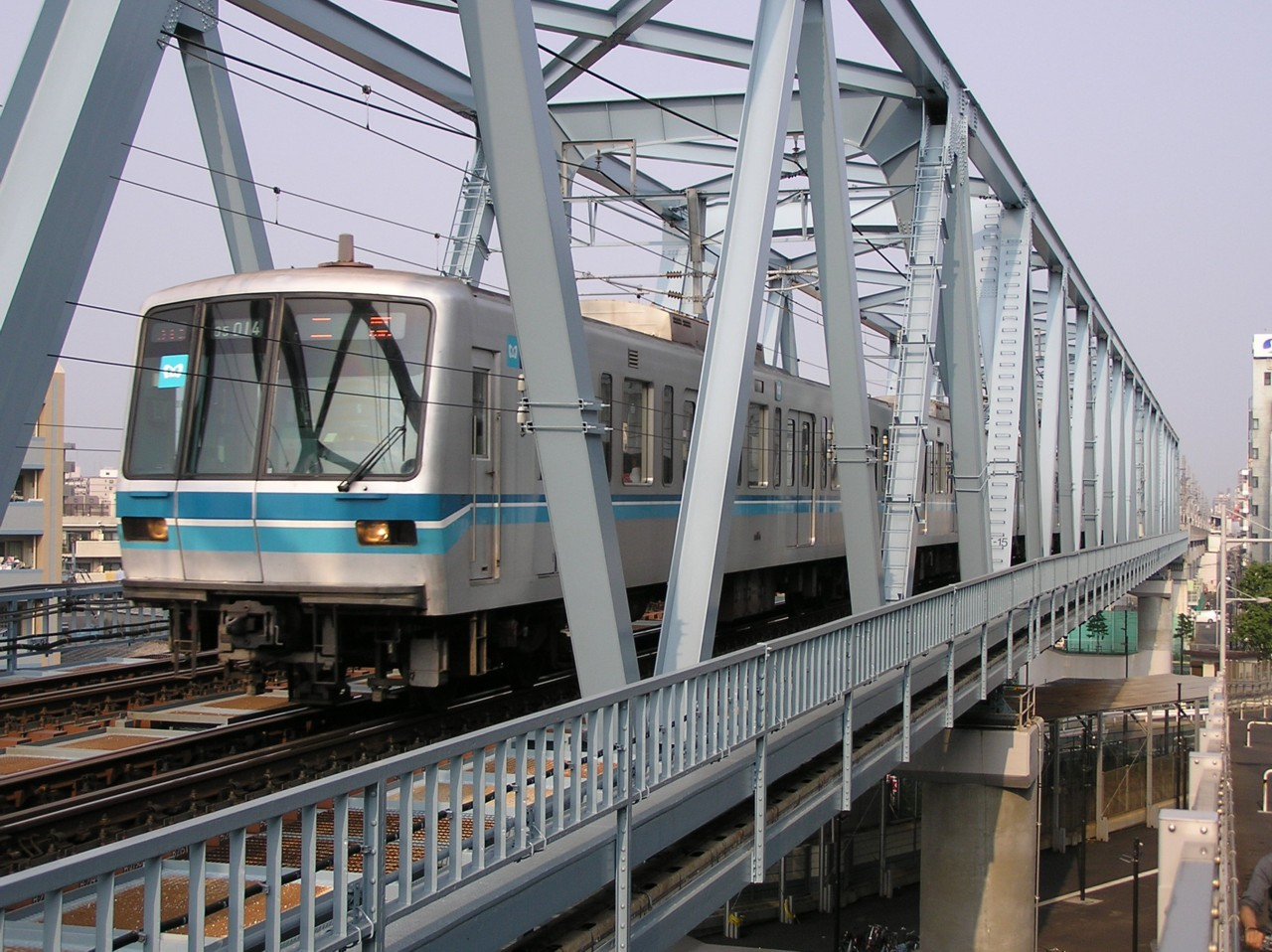 撮影地 Place of photo西葛西～南砂町撮影の状況 How to take公道から撮影 At public roadトリミングの有無 Cropped or not非トリミング Not Cropped内容 Description東西線05系05-114F Series 05 which is a train of Tokyo Metro Tozai Line